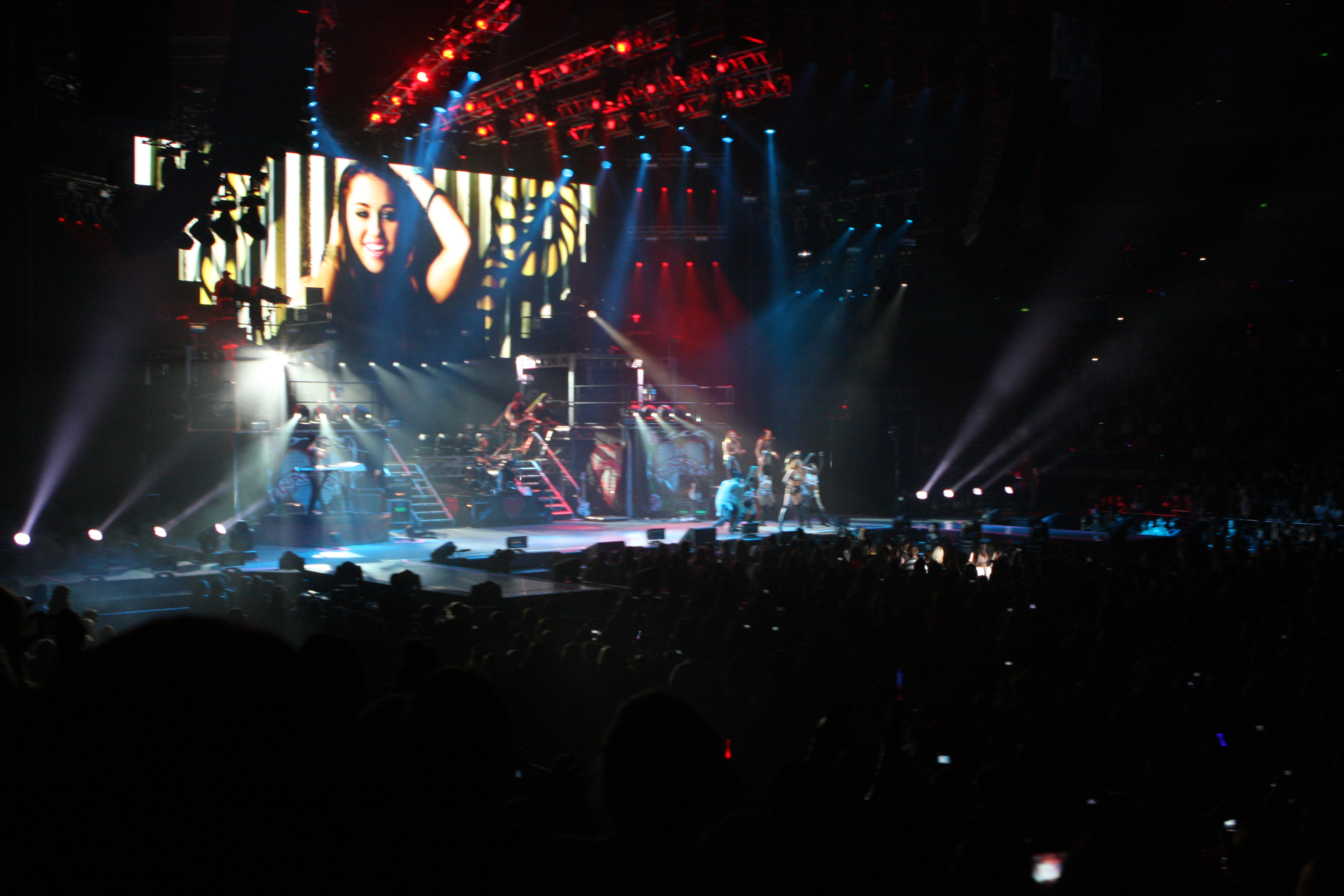 Pop singer Miley Cyrus performing in Sydney, Australia as part of her Gypsy Heart Tour.